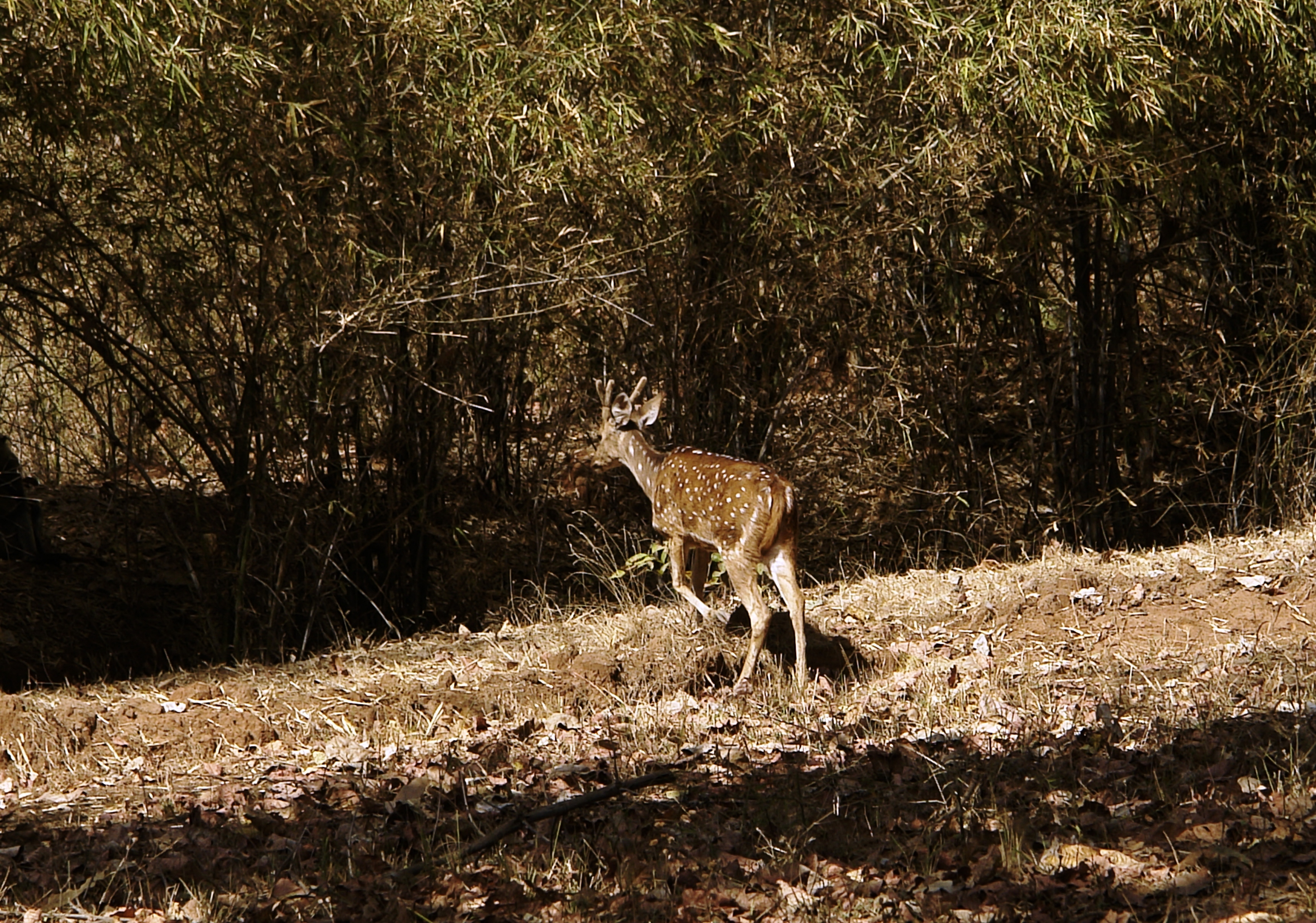 Chital (Axis axis), Bandhavgarh National Park, India.